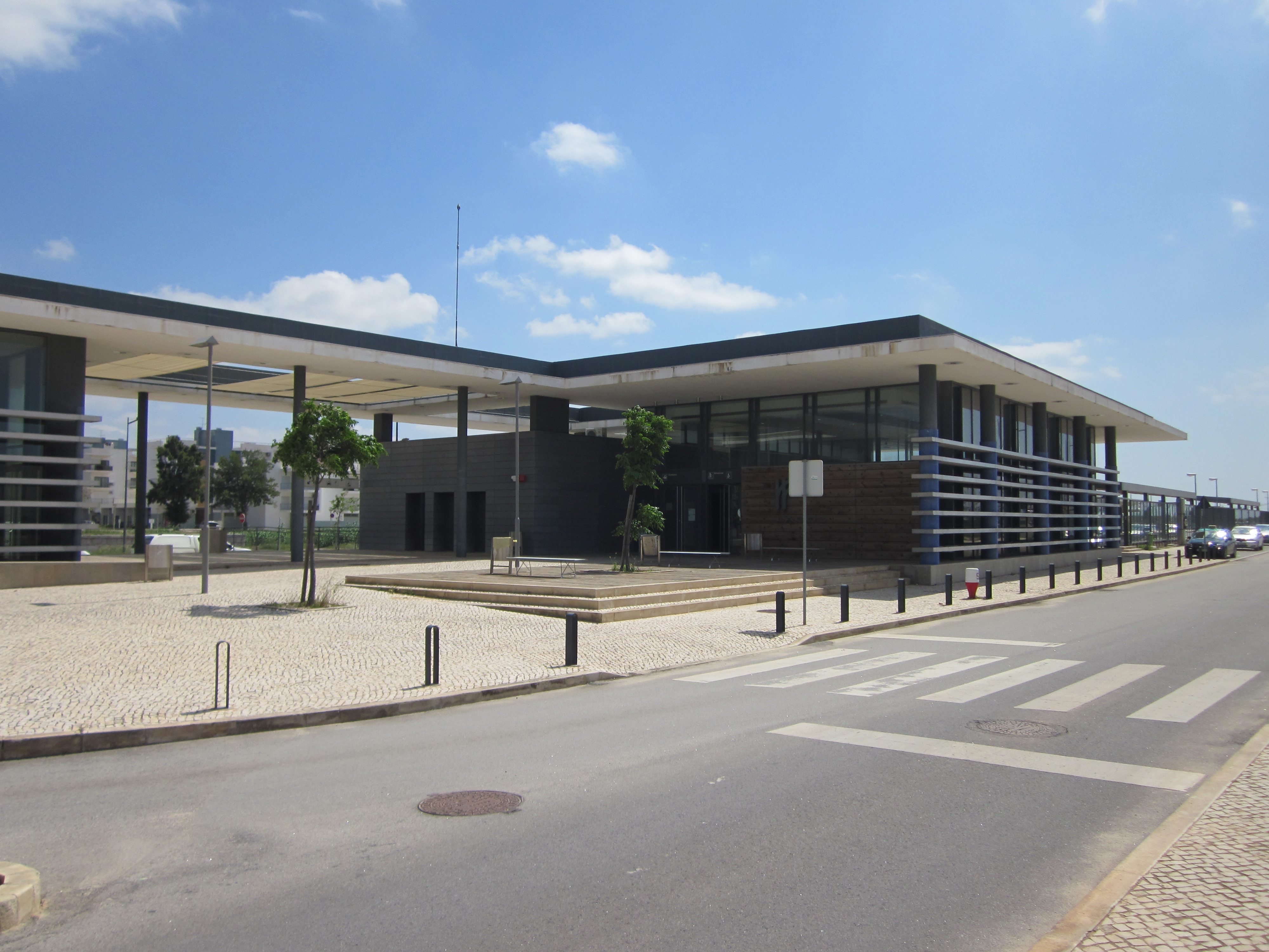 New railway station in Lagos, Portugal.